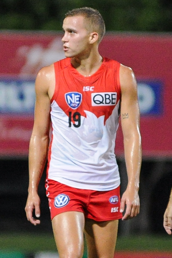 Shaun Edwards playing for the Sydney Swans' reserves in April 2017.